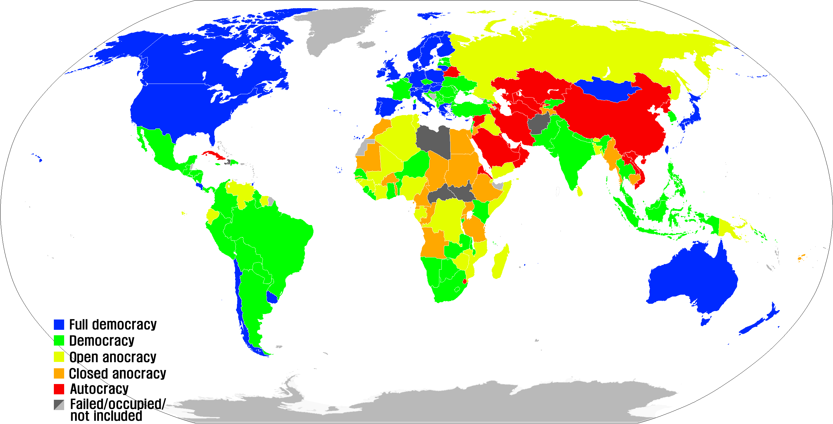 Map of democracy according to Polity IV index